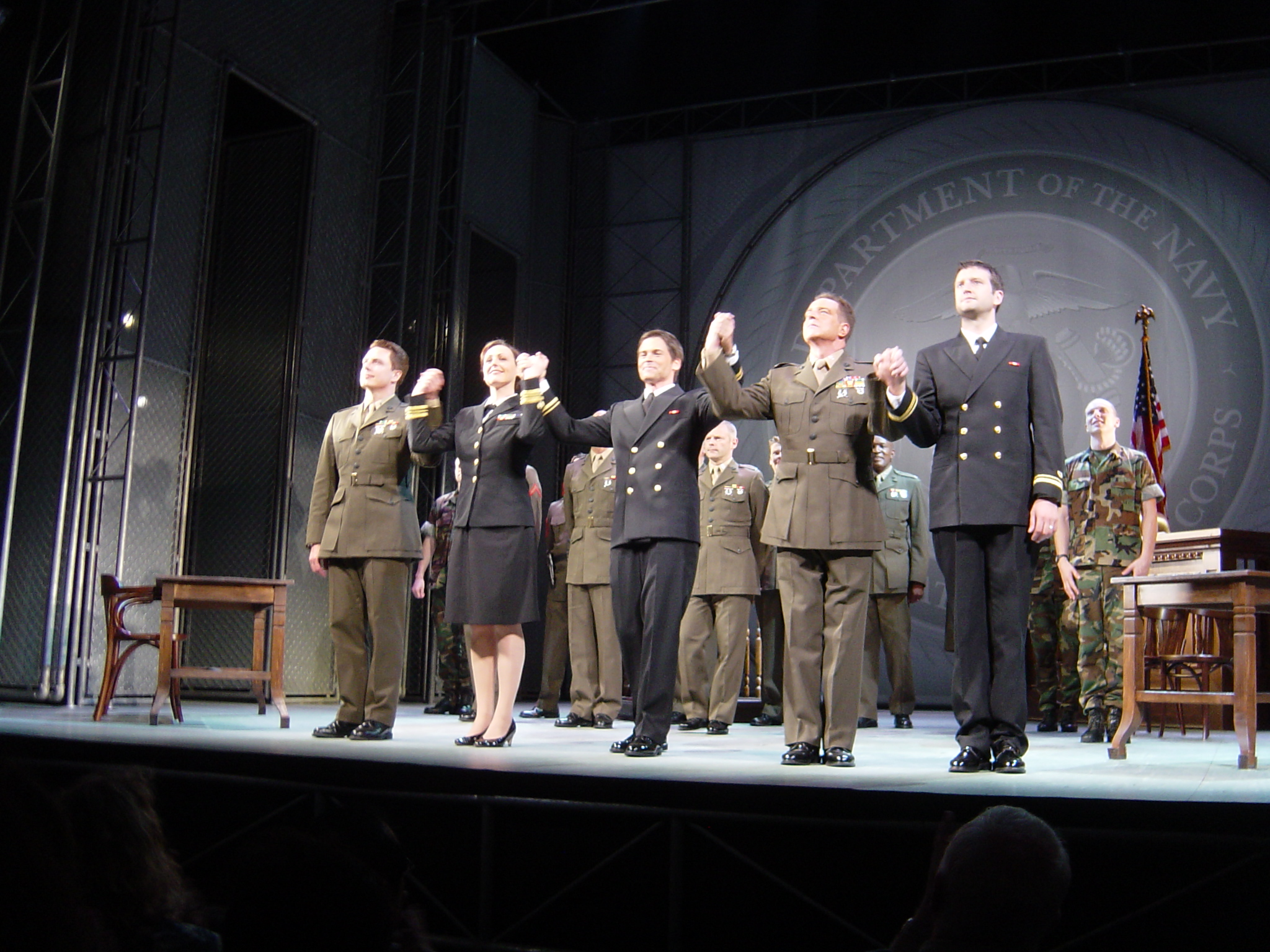 A Few Good Men at the Haymarket Theatre, London in 2005.A Few Good Men staring Rob Lowe, John Barrowman and Michael Beckley at the Haymarket Theatre, London.